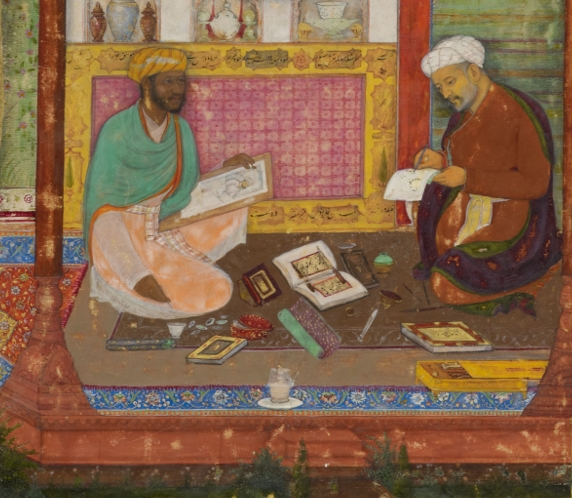 Colophon portrait from the 1595-6 Khamsa of Nizami, signed by Daulat. It shows Daulat (left) and and 'Abd al-Rahim ("Amber-pen"), a scribe, working on the book. From BL Or. MS 12208, f. 325v; digitised and held by the British Library.